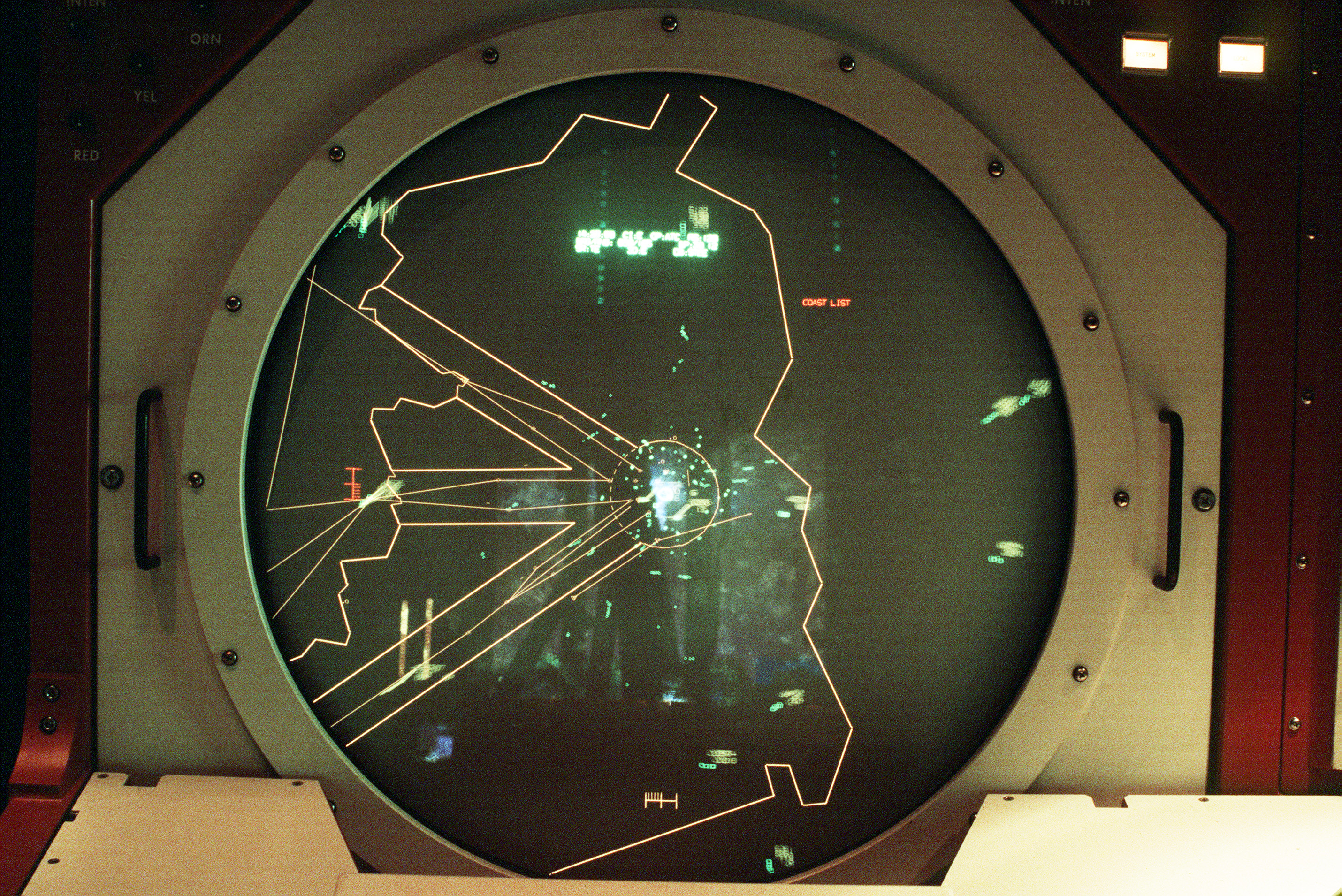 A view of East Germany on a radar screen inside the Berlin Air Route Traffic Control Facility at Tempelhof Central Airport. The facility is operated by members of the 1946th Information Systems Squadron.